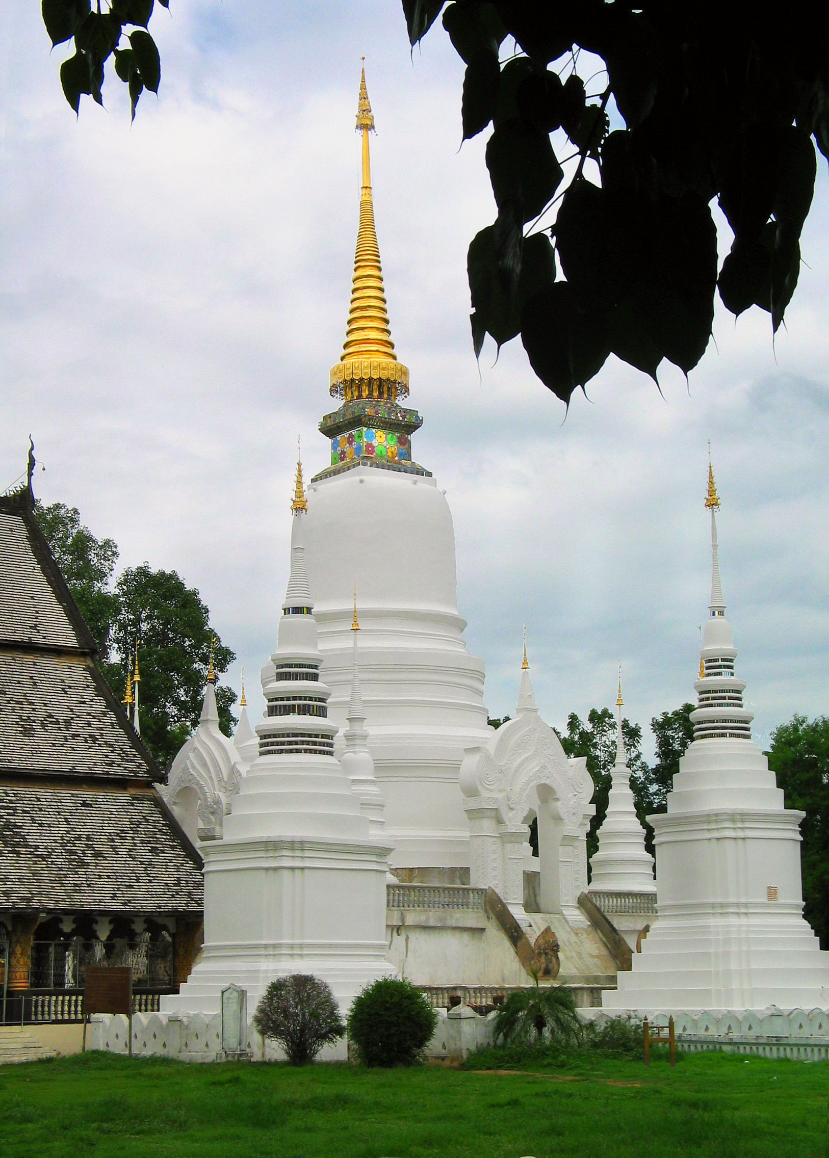 Wat Suan Dok, Chiang Mai, northern Thailand